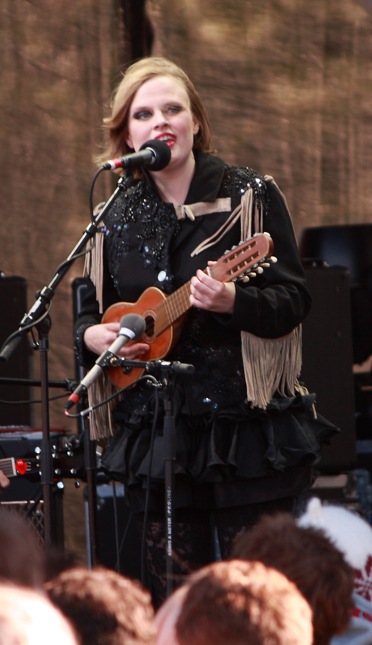 Ólöf Arnalds at the Náttúra concert Reykjavik 2008.